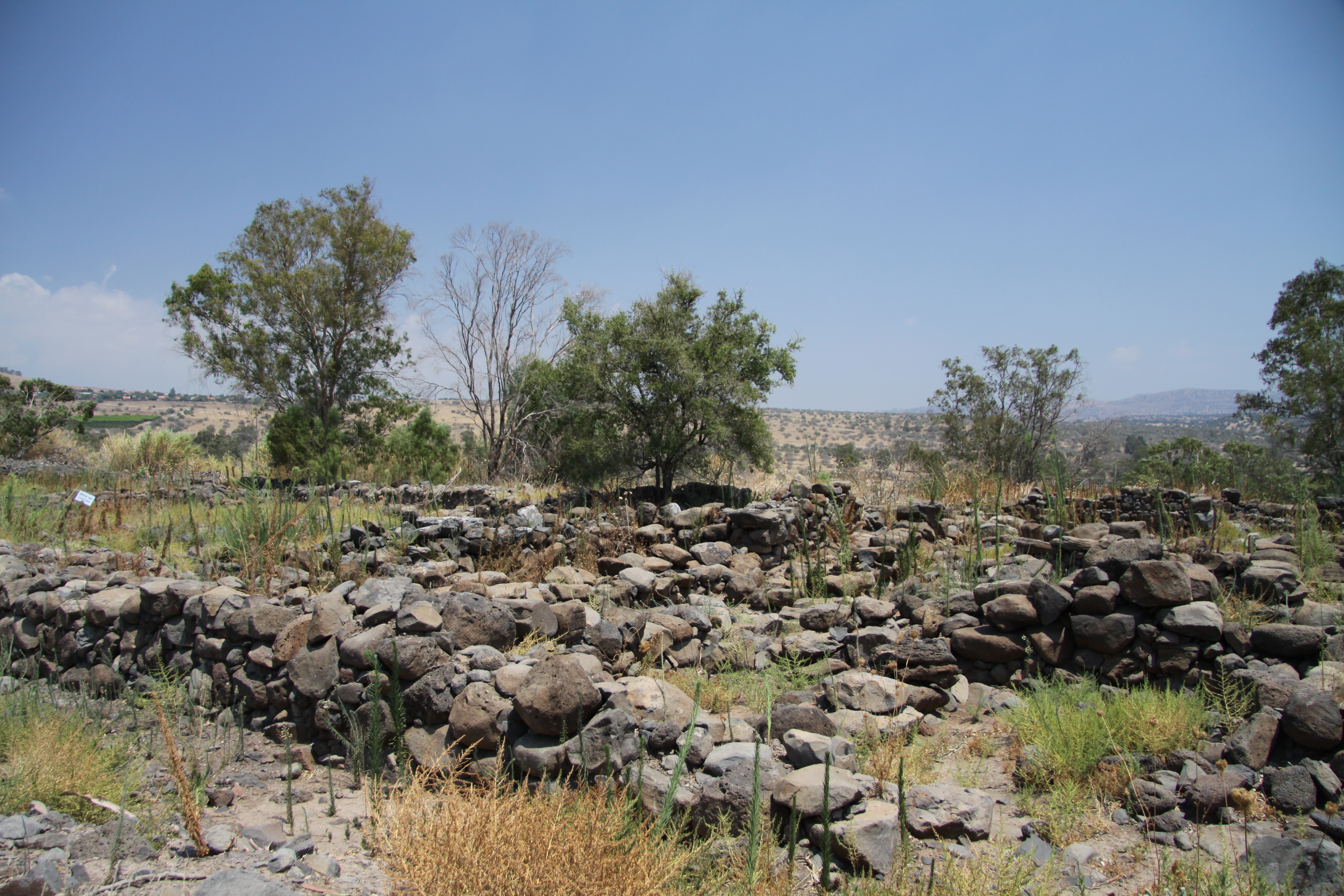 Ruins of fishing village Bethsaida meantiond in New Testament of Bible, northern from Sea of Galilee, Israel